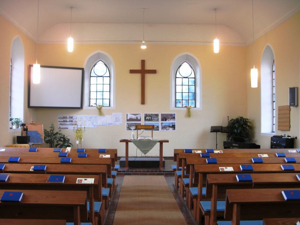 Mennonite church of Sembach, Rhineland-Palatinate, Germany